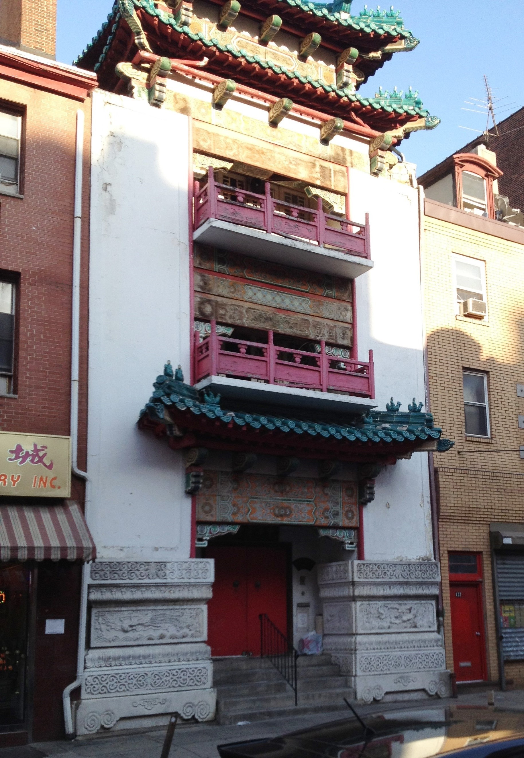 Phila Chinatown Buddhist Temple 125 North 10th Street, Philadelphia, PA